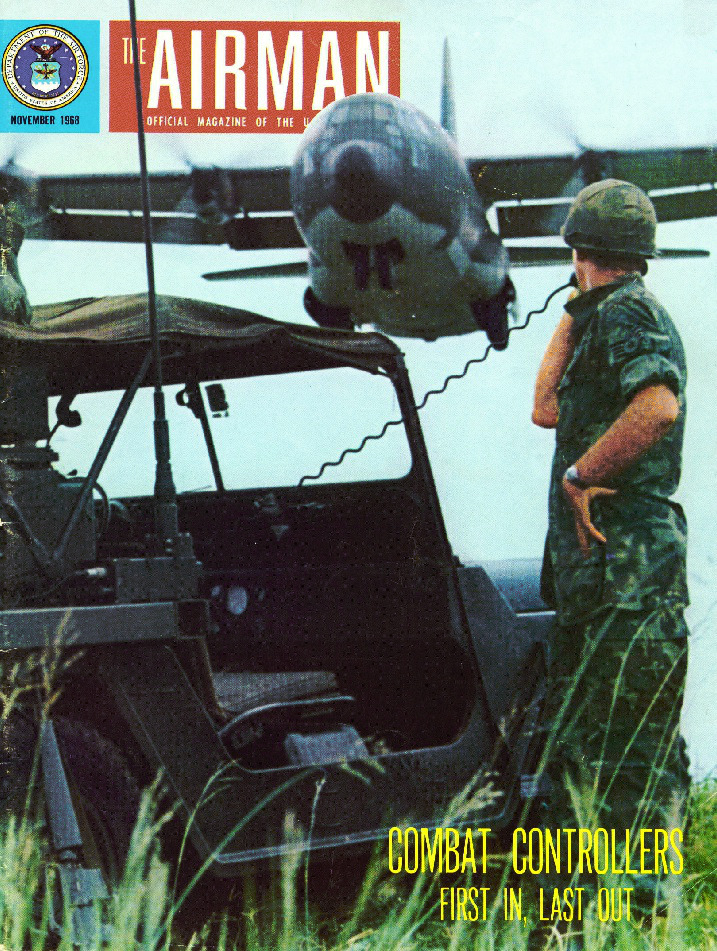 The cover of a 1968 issue of Airman Magazine featuring a Combat Controller.